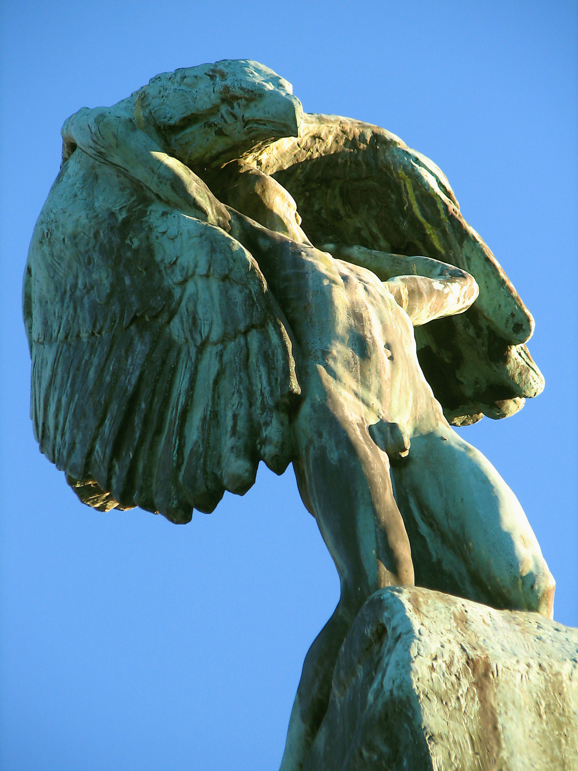 The bronze sculpture Vingarna (the wings) by Carl Milles at Götaplatsen in Göteborg, Sweden.